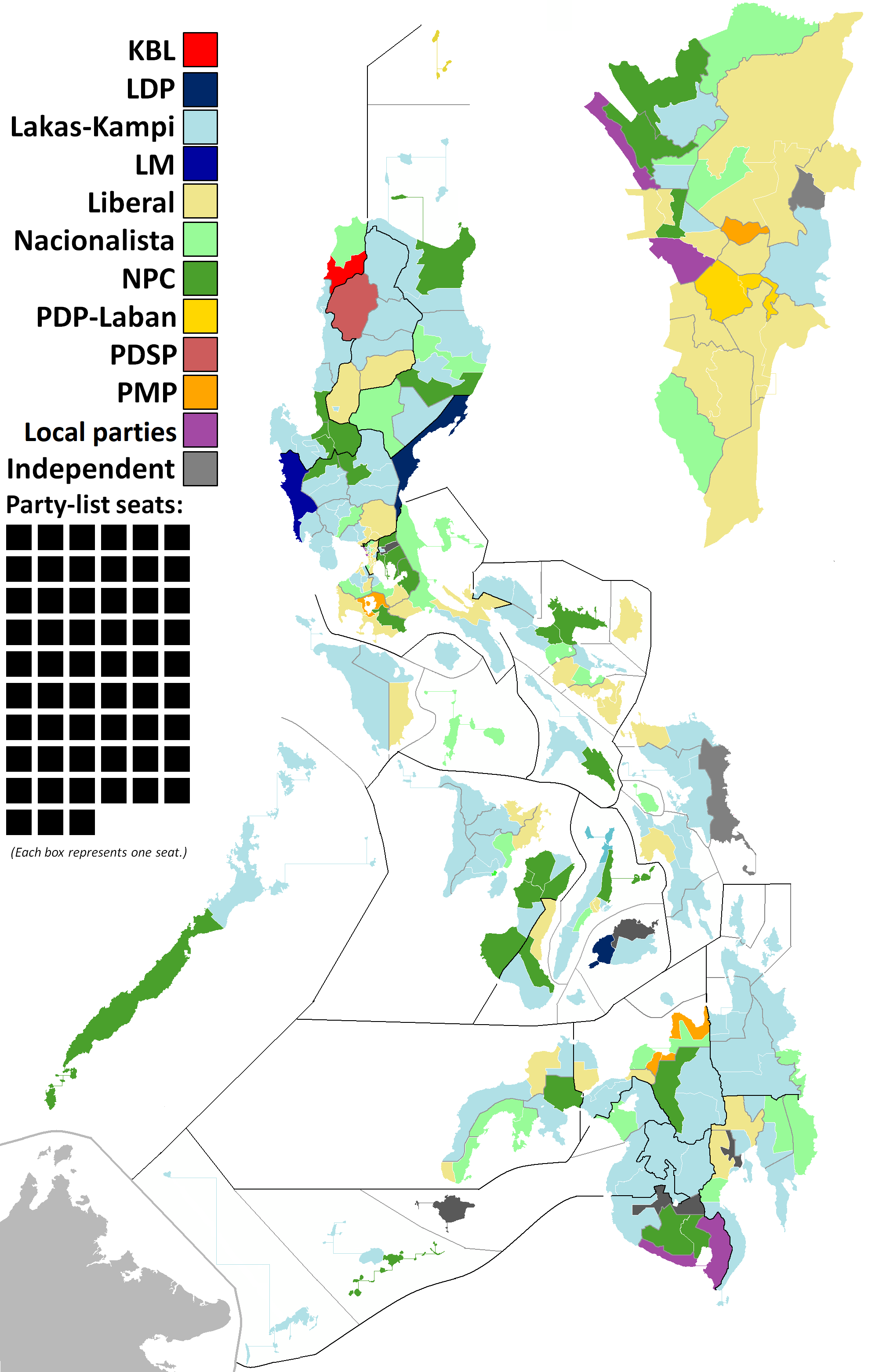 2010 Philippine House of Representative elections results (districts)